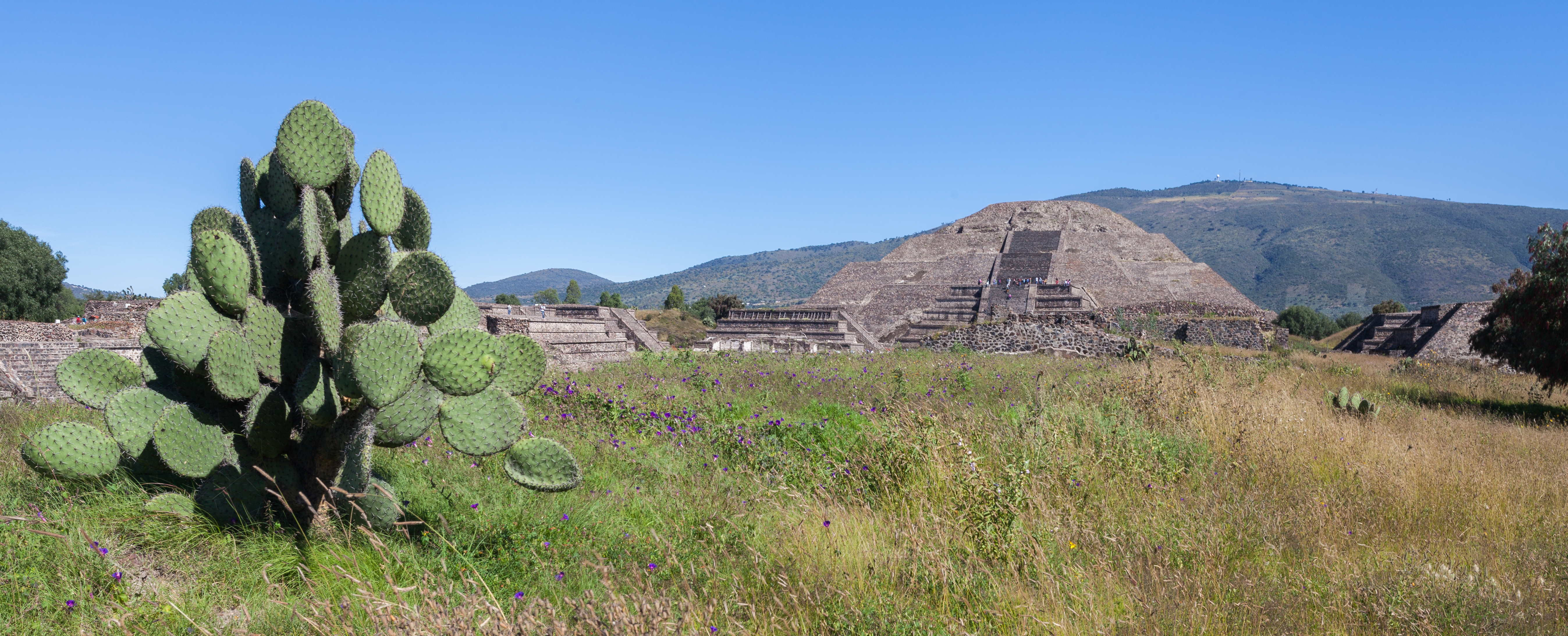 The Pyramid of the Moon in Teotihuacan, México